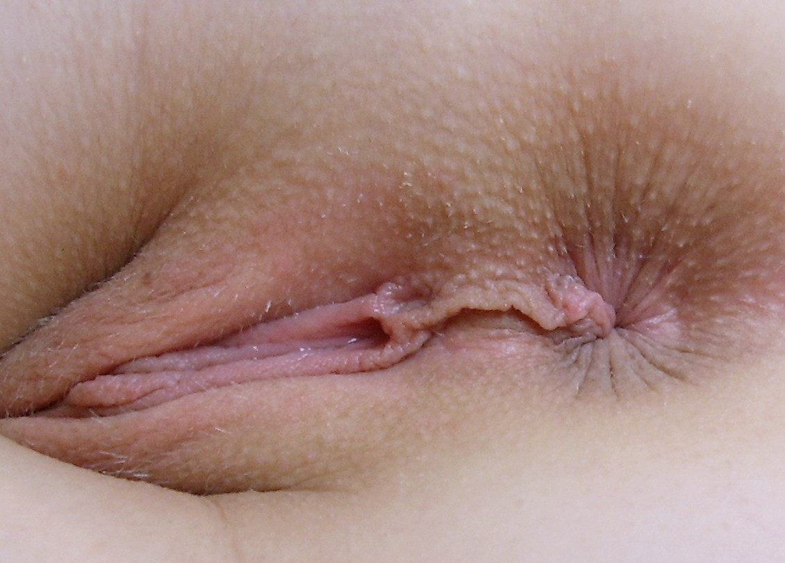 The anus of a 21 year old woman with predominant raphe perinealis.